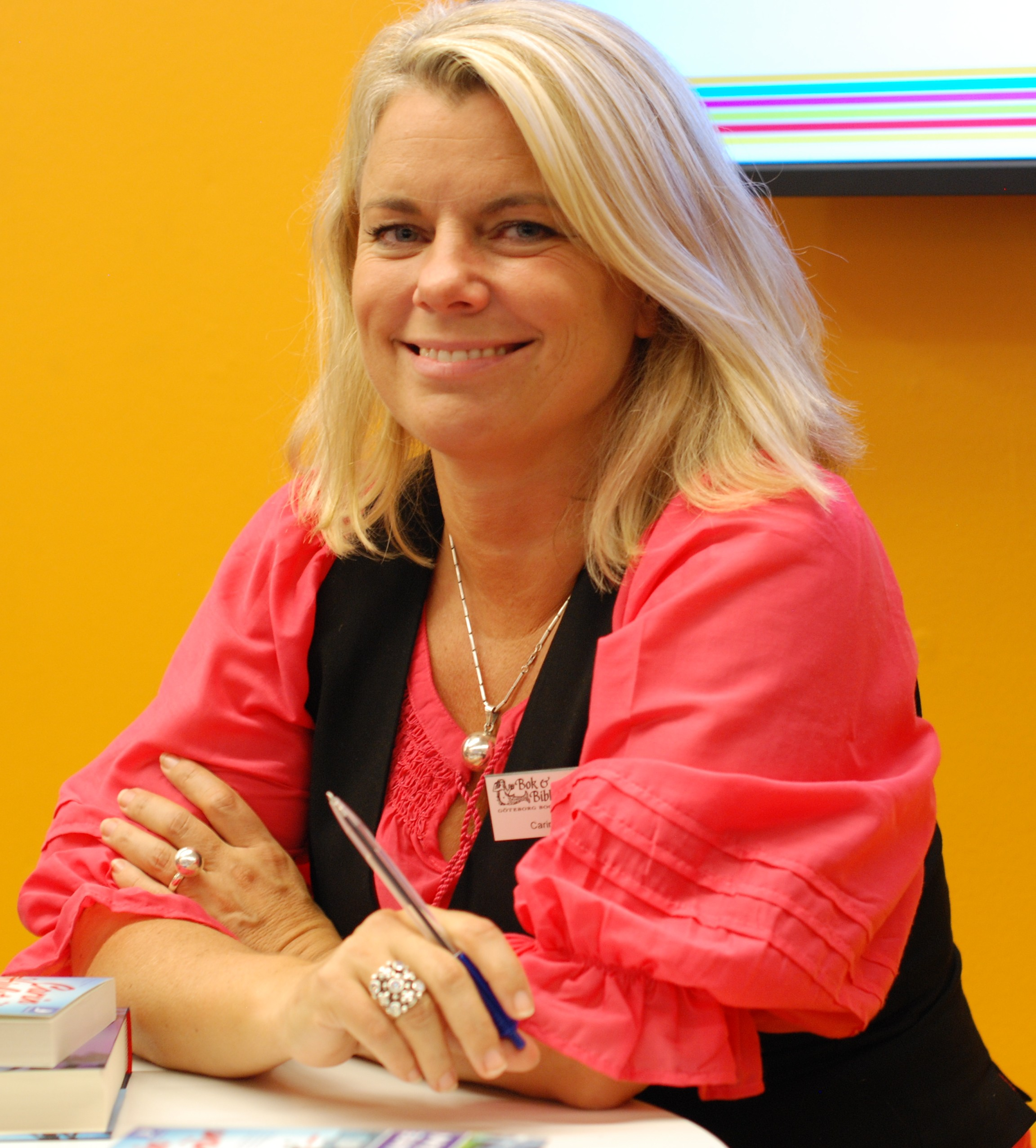 Swedish writer Carin Hjulström at the Göteborg Book Fair 2010